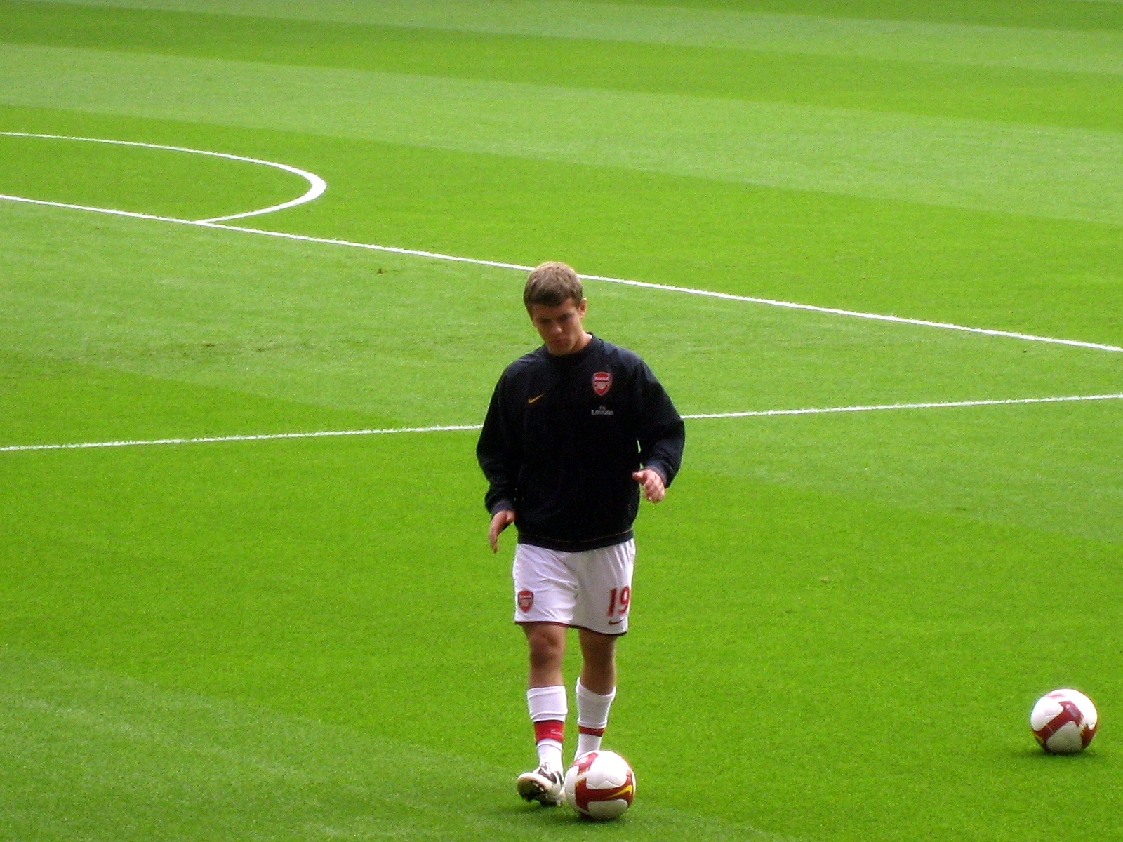 Jack Wilshere warming up in a game agaist West Brom in the 2008–09 season/